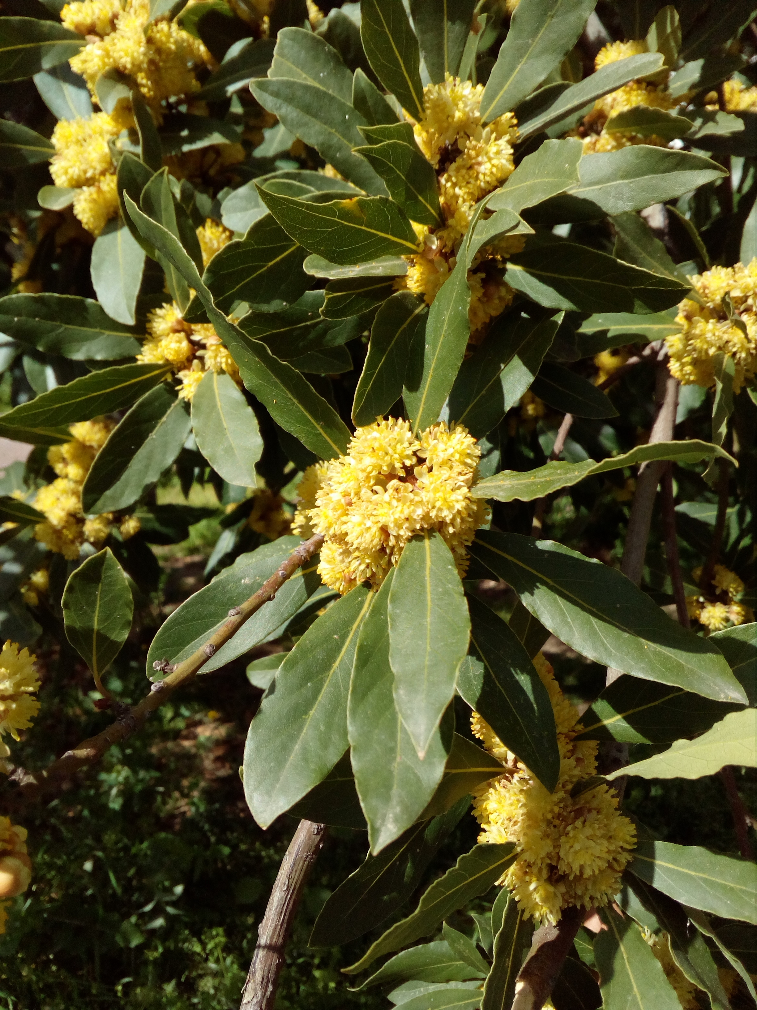 Laurus nobilis bloomed